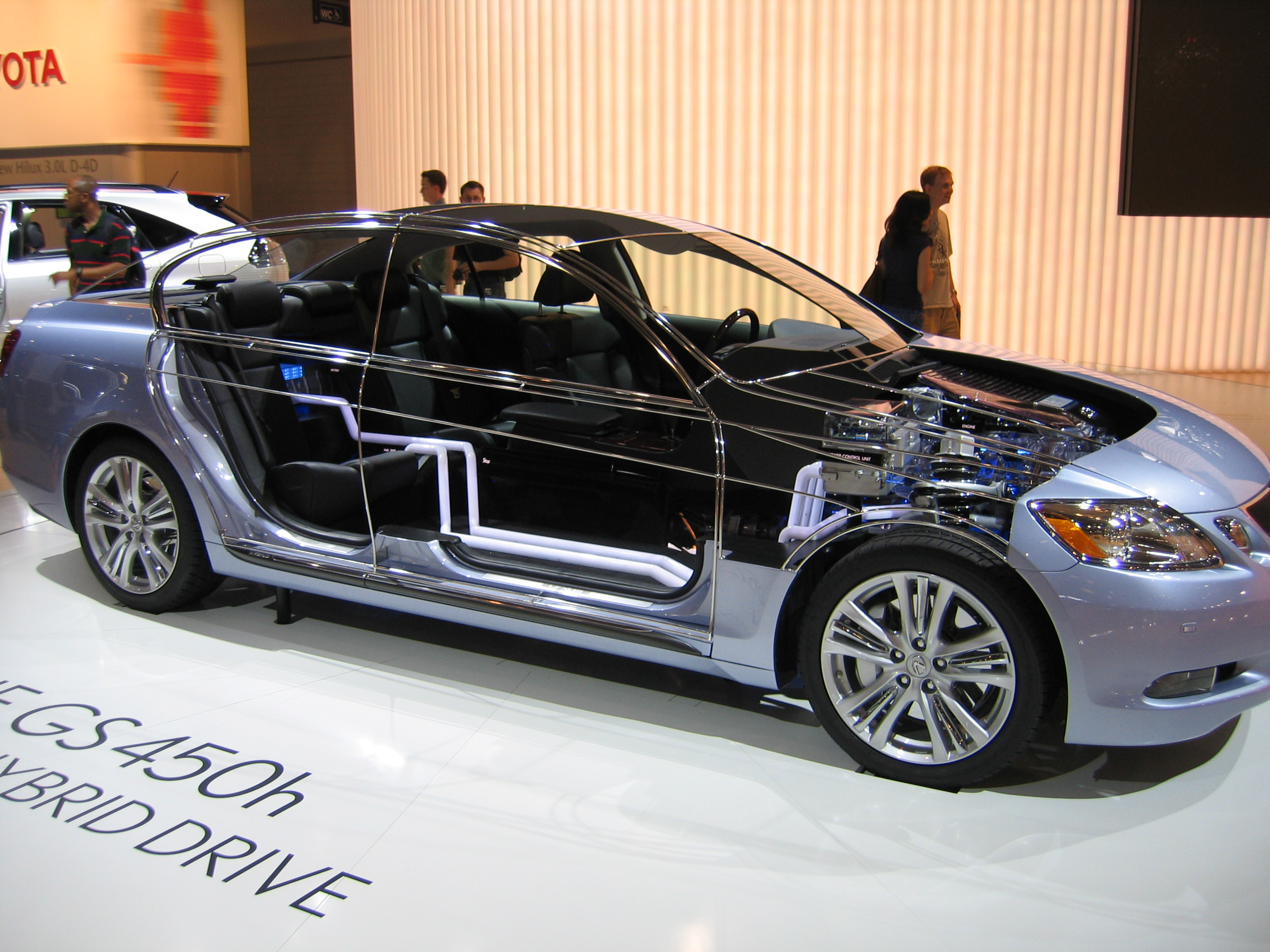 Lexus GS450h Hybrid